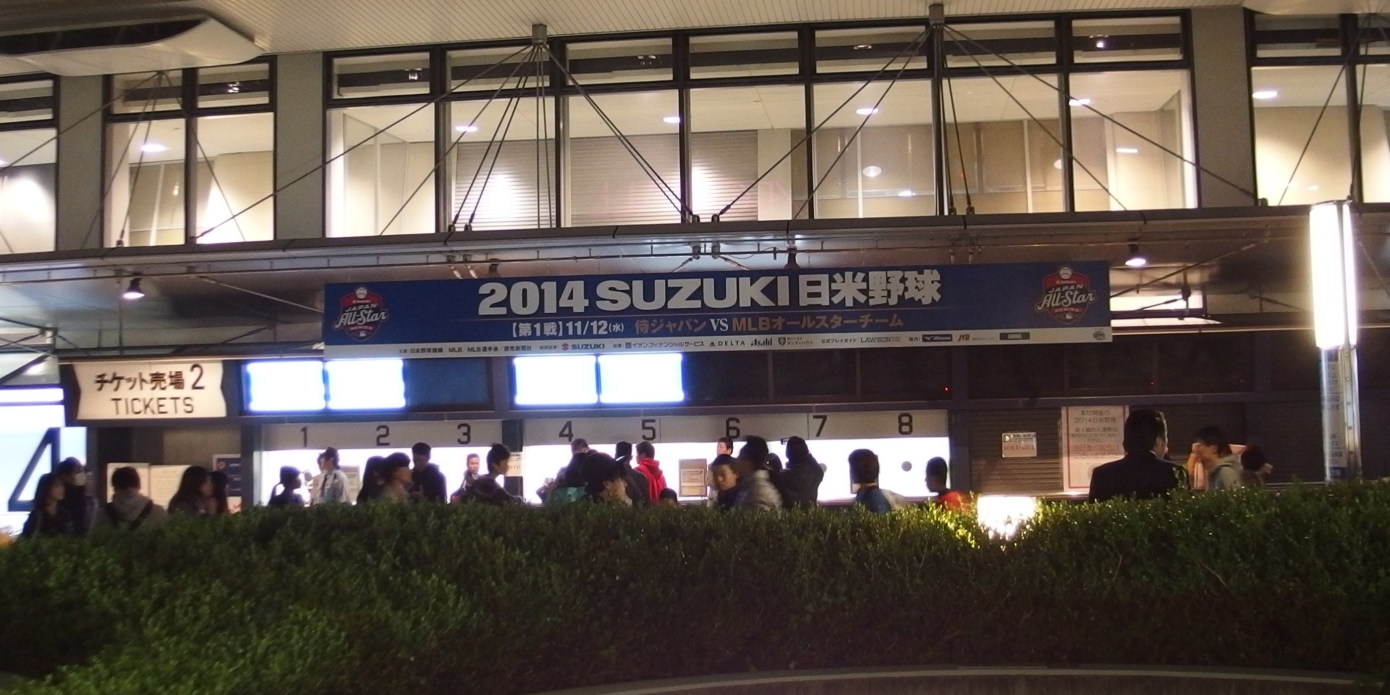 2014 Major League Baseball Japan All-Star Series Game1, Kyocera Dome